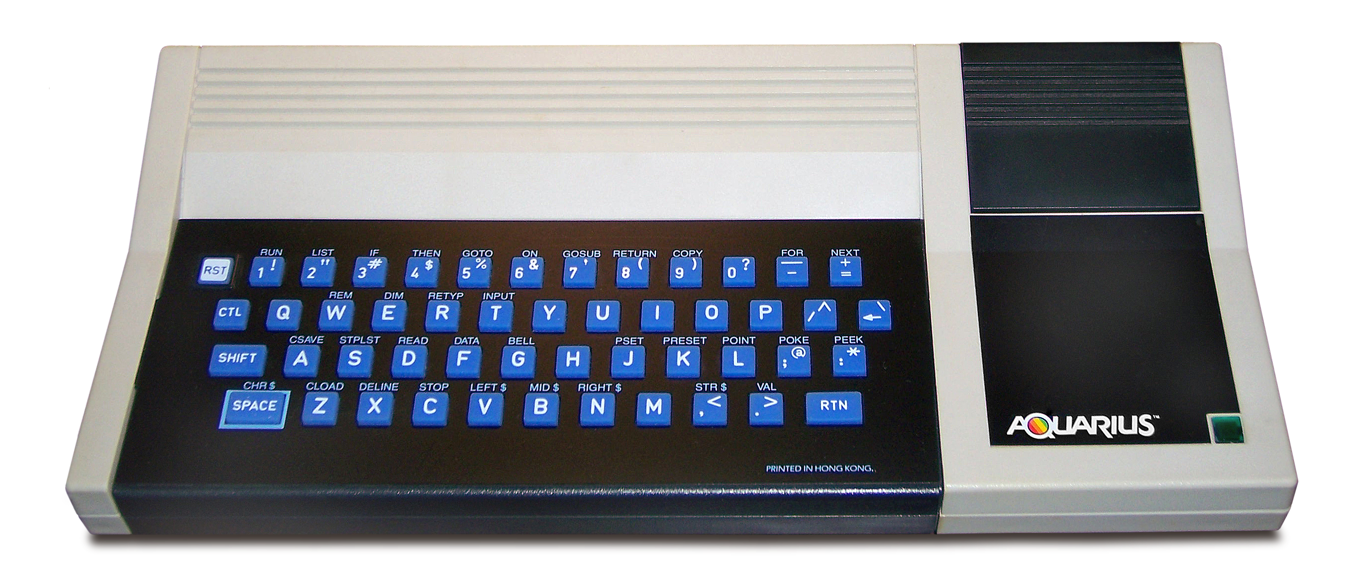 Close up picture of an Aquarius Home Computer.